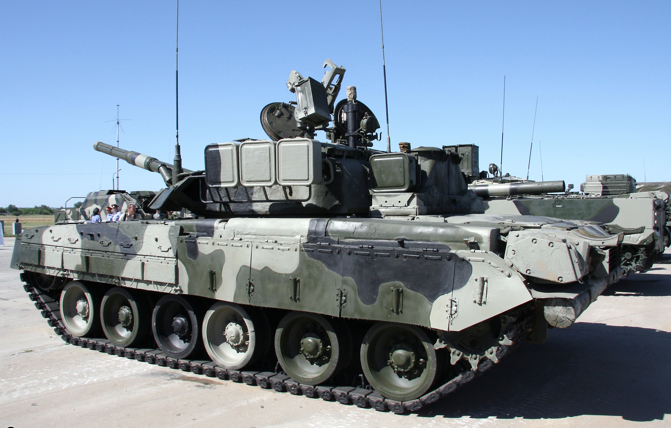 A T-80 tank at the Engineering Technologies 2010 international forum.